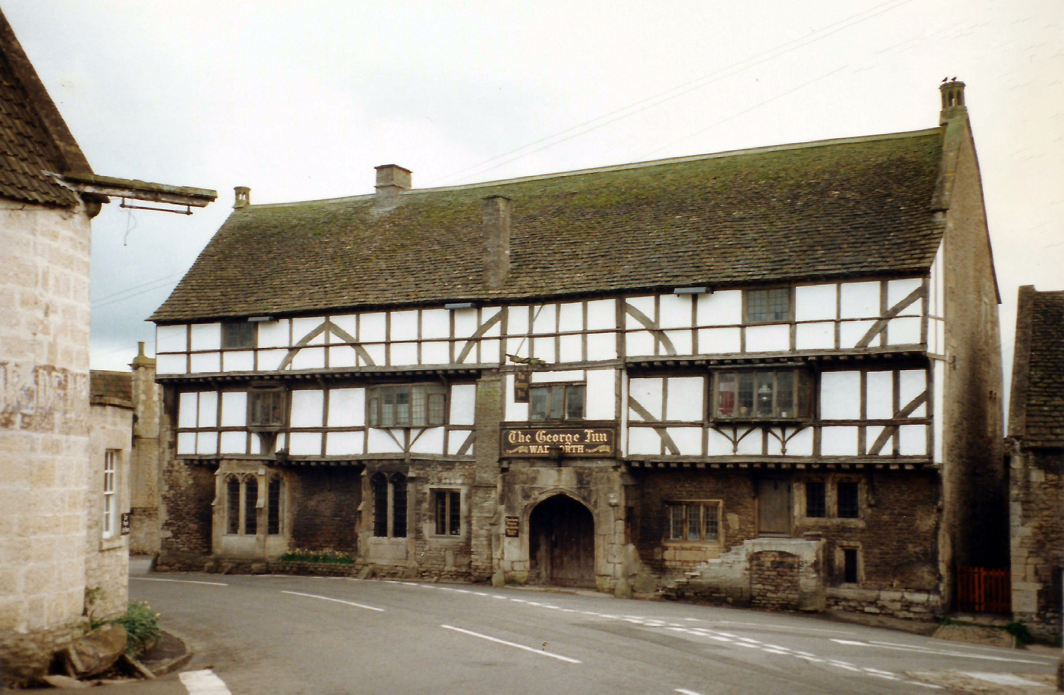 Frontage of The George Inn at Norton St Philip, Somerset, England